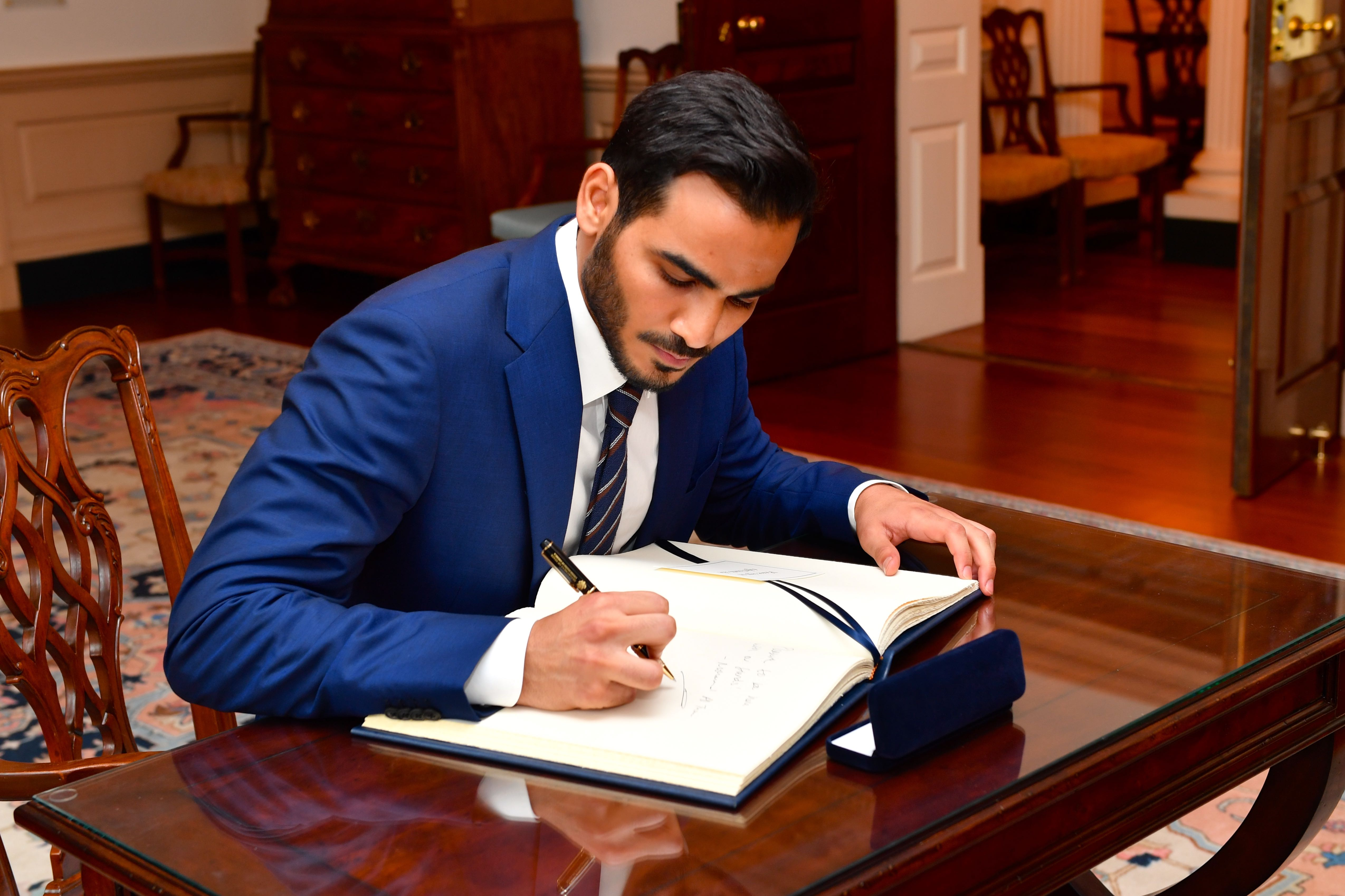 Qatari Secretary to the Emir for Investments Sheikh Mohammed bin Hamad bin Khalifa Al Thani signs U.S. Secretary of State Rex Tillerson's guestbook before their bilateral meeting at the U.S. Department of State in Washington, D.C., on June 16, 2017. [State Department photo/ Public Domain]